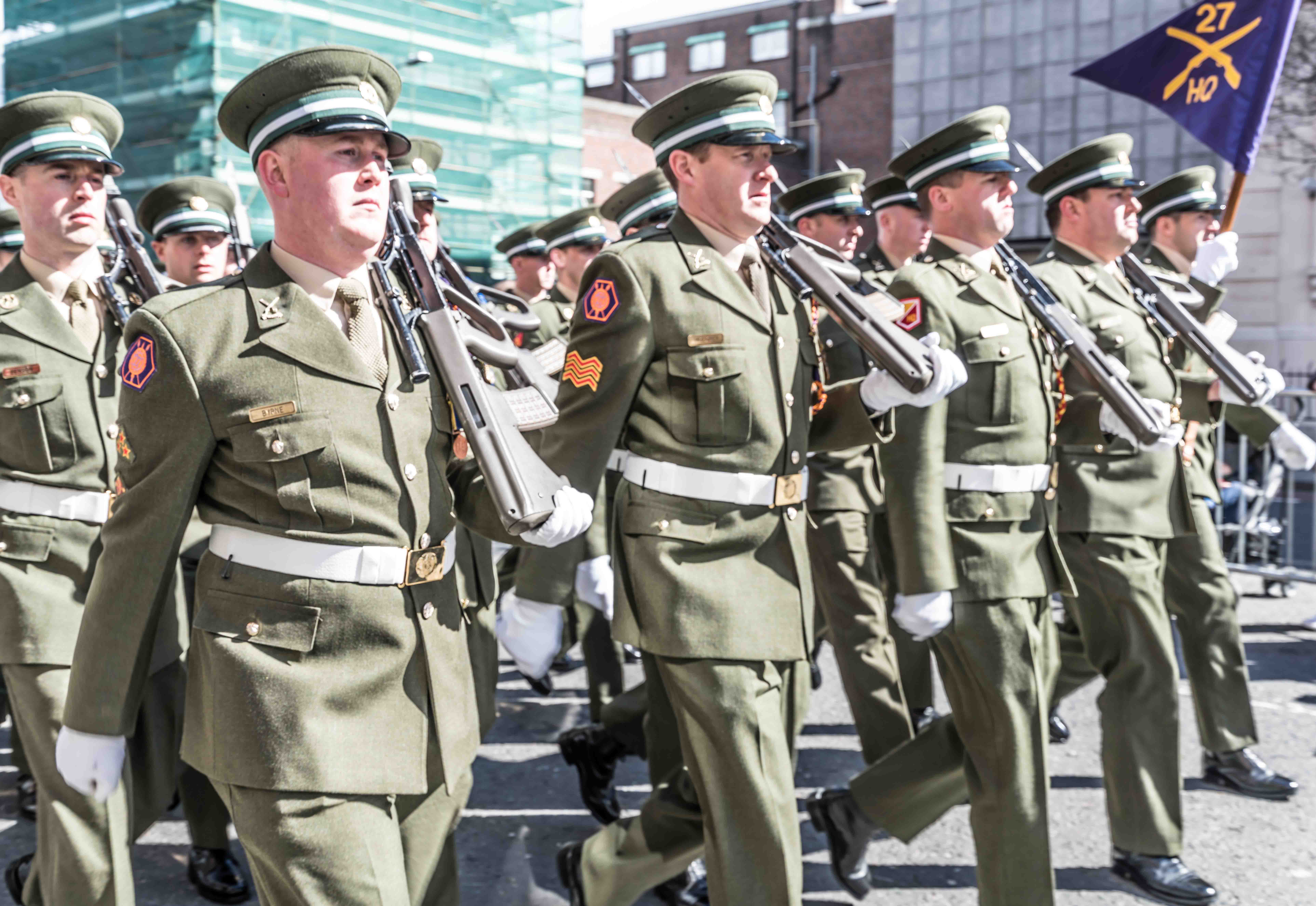 Since Ireland joined the United Nations in 1955, the Army has been deployed on many peacekeeping missions. The first of these took place in 1958, when a small number of observers were sent to Lebanon. A total of 86 Irish soldiers have died in the service of the United Nations since 1960 As of 1 December 2015, 493 Defence Force personnel are serving in 12 different missions throughout the world including Lebanon (UNIFIL), Syria (UNDOF), Middle East (UNTSO), Kosovo (KFOR), German-led Battle Group 2016 and other observer and staff appointments to UN, EU, OSCE and PfP posts.[53] The largest deployments include: Lebanon (UNIFIL) 51 Infantry Group, Syria (UNDOF) 50 Infantry Group. The Army has historically purchased and used weapons and equipment from other western countries, mainly from European nations. Ireland has a very limited arms industry and rarely produces its own armaments. From its establishment the Army used the British-made Lee–Enfield .303 rifle, which would be the mainstay for many decades. In the 1960s some modernisation came with the introduction of the Belgian-made FN FAL 7.62 mm assault rifle. Since 1989 the service rifle for the Army is the Austrian-made Steyr AUG 5.56 mm assault rifle (used by all branches of the Defence Forces). Other weapons in use by the Army include the USP 9mm pistol, FN MAG machine gun, M2 Browning machine gun, Accuracy International Arctic Warfare sniper rifles, AT4 SRAAW, FGM-148 Javelin Anti-tank guided missile, L118 105mm Howitzer, RBS 70 Surface to Air Missile system. The Army has purchased 80 Swiss made Mowag Piranha Armoured personnel carriers which have become the Army's primary vehicle in the Mechanised infantry role. These are equipped with 12.7 mm HMGs, or the Oto Melara 30 mm Autocannon. The army also has 27 RG Outrider light tactical armoured vehicles. The Army has no tanks, but does have a variant of the FV101 Scorpion light armoured reconnaissance vehicle, with a 76.2 mm main gun.